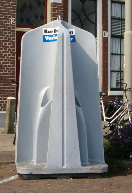 A plastic-made portable public urinal in the Netherlands. Took picture myself.